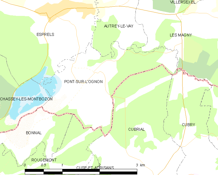 Map of French municipality